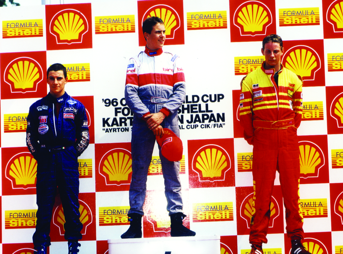 World Cup Podium, Milos Pavlovic, Giorgio Pantano and Jenson Button.